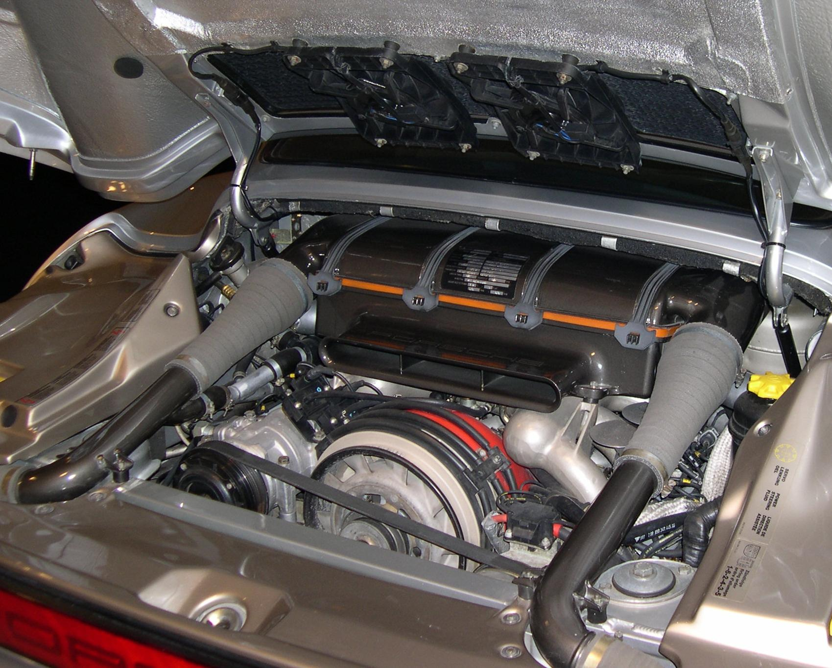 Porsche 959 From the Ralph Lauren collection on display at the Boston Museum of Fine Arts. Photo taken in 2005. Source: Photo by User:Sfoskett